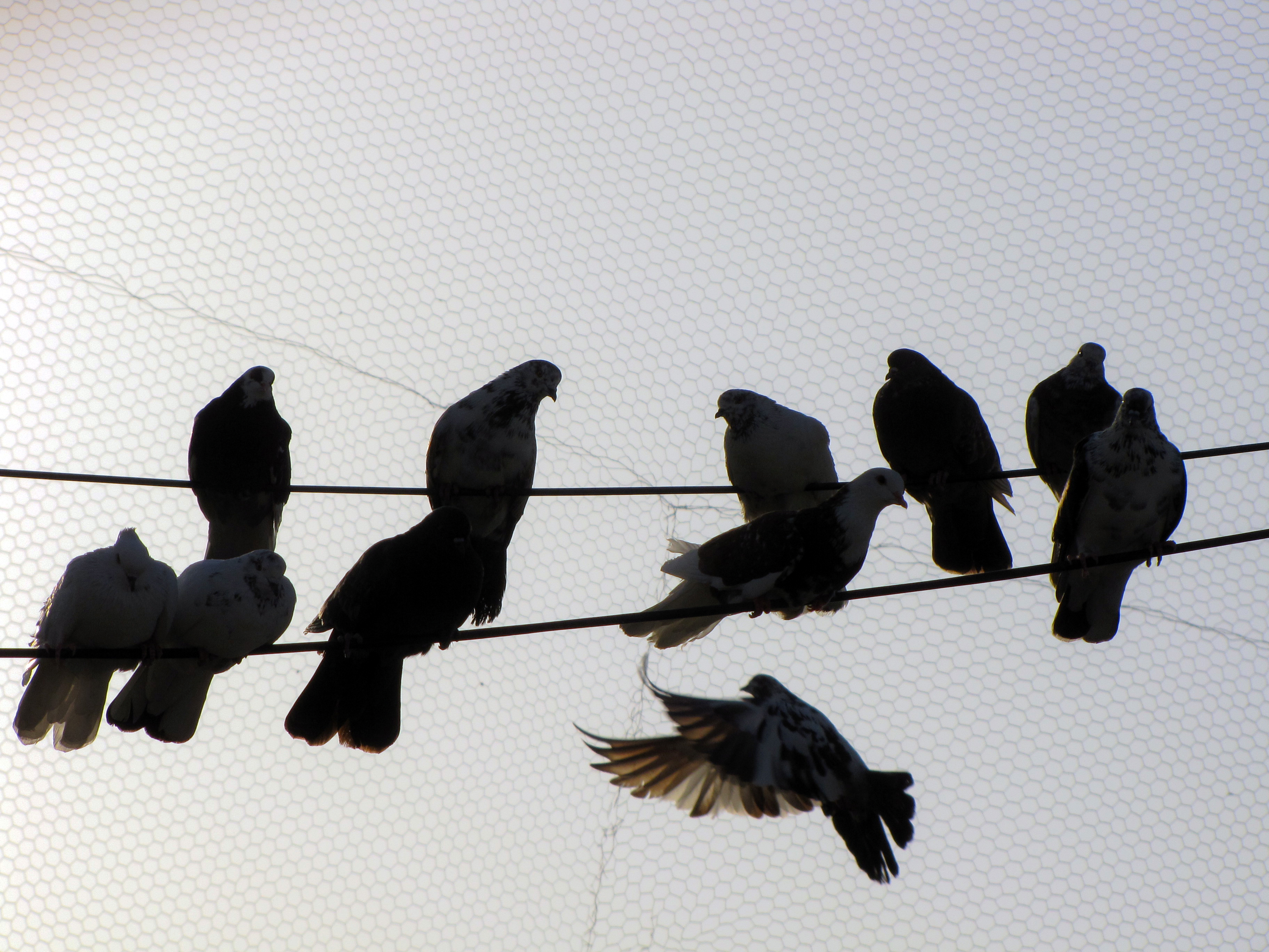 Pigeons and doves constitute the bird family Columbidae, which includes about 42 genera and 310 species.